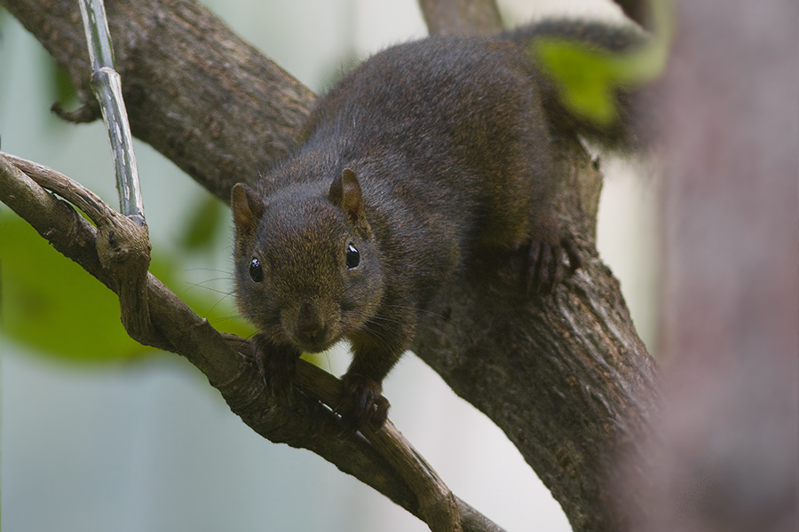 The species Callosciurus pygerythrus (Hoary-bellied Himalayan Squirrel) had been photographed from Khangchendzonga Biosphere Reserve in West Sikkim, India on 29.10.2015 during the birding tour of GoingWild.